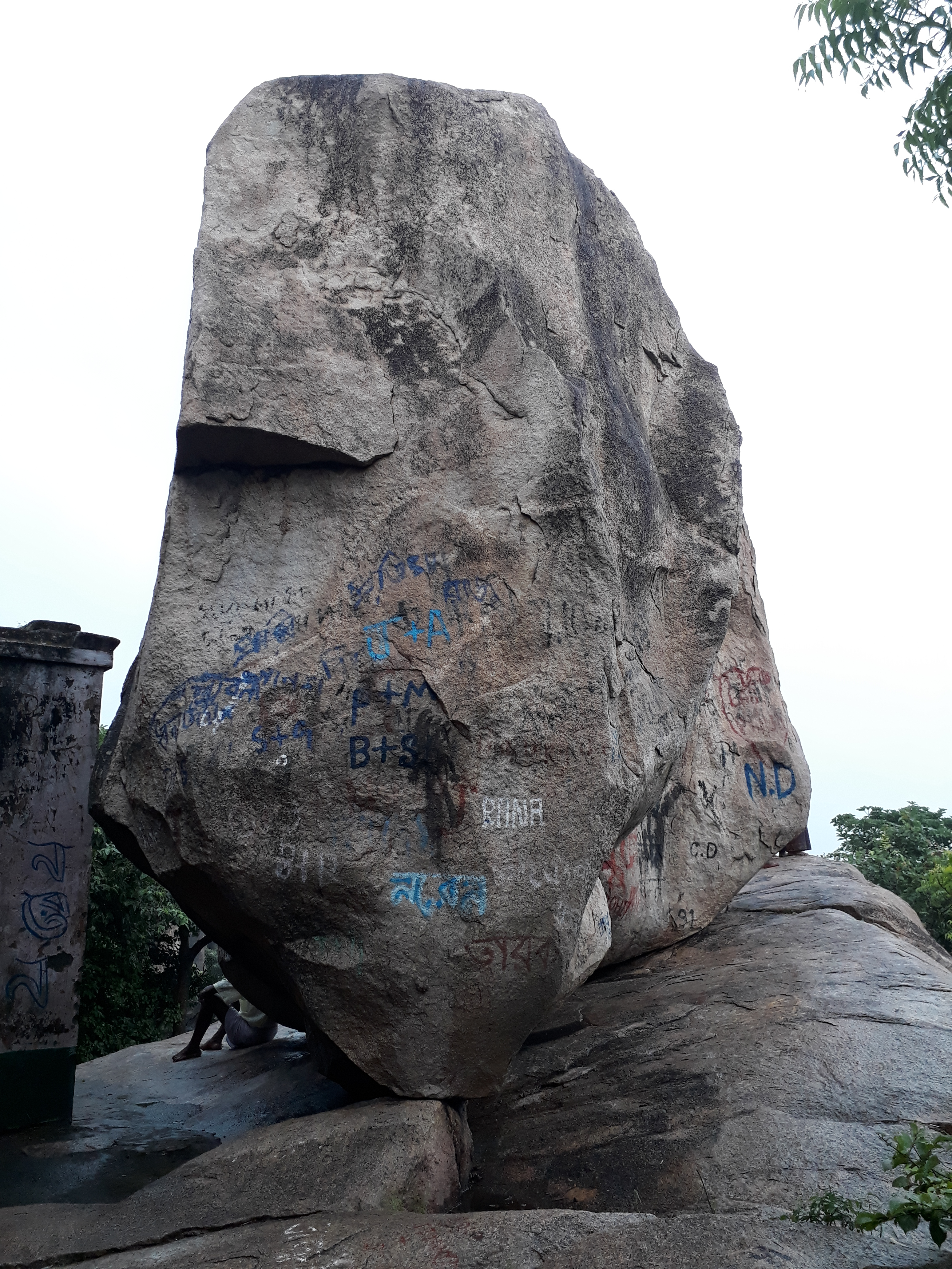 Mama Bhagne Hills and Temple in Dubrajpur town, Birbhum, West Bengal